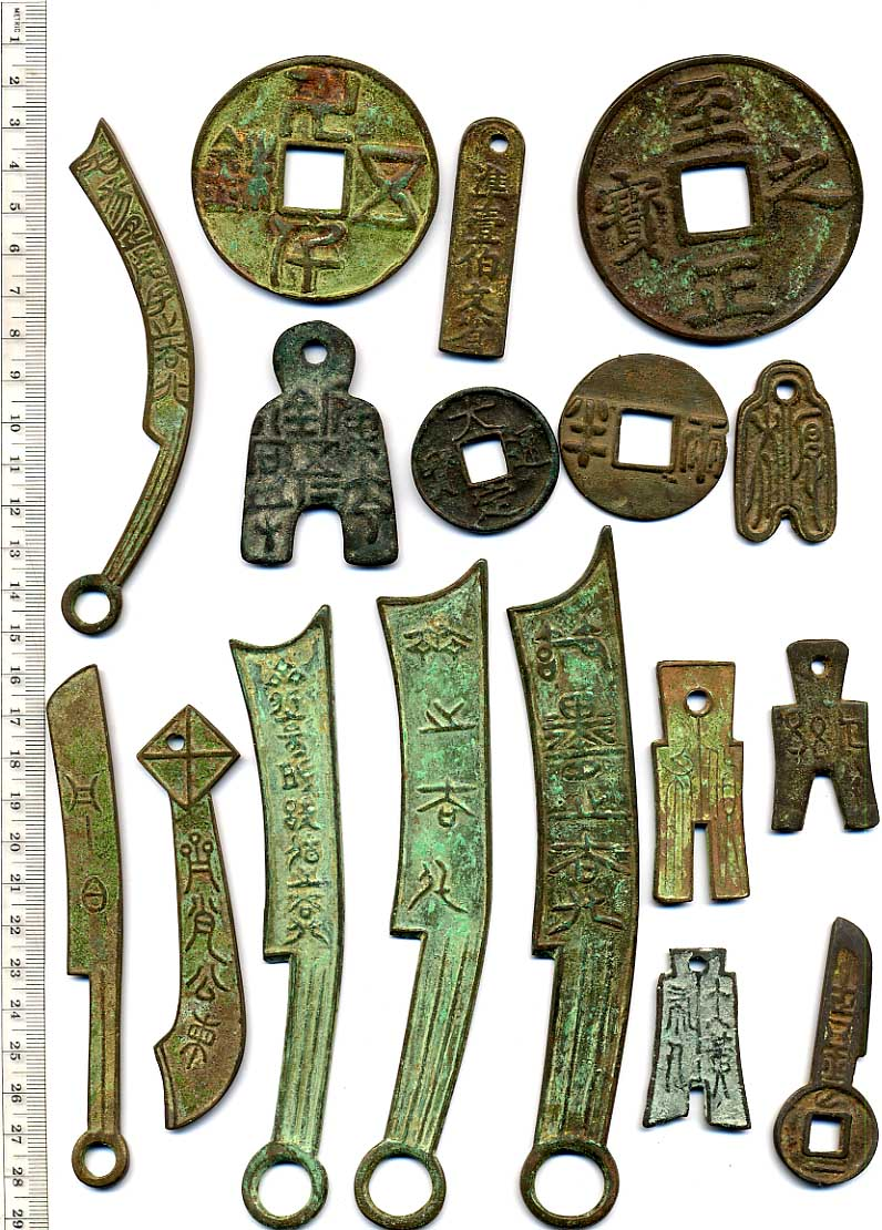 An image of Chinese numismatic charms and amulets provided by Scott Semans.